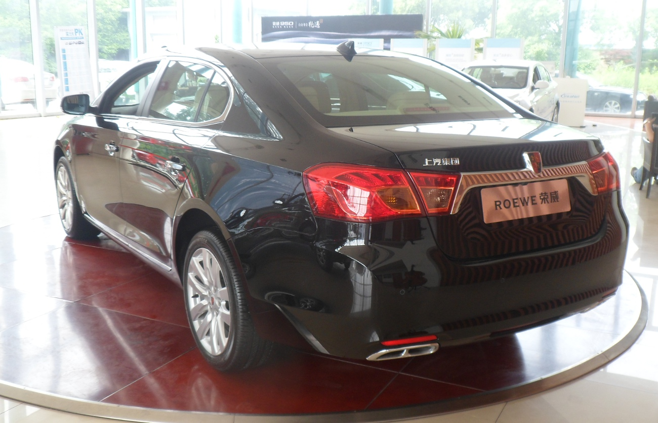 Roewe 950 photographed in Shanghai, China.